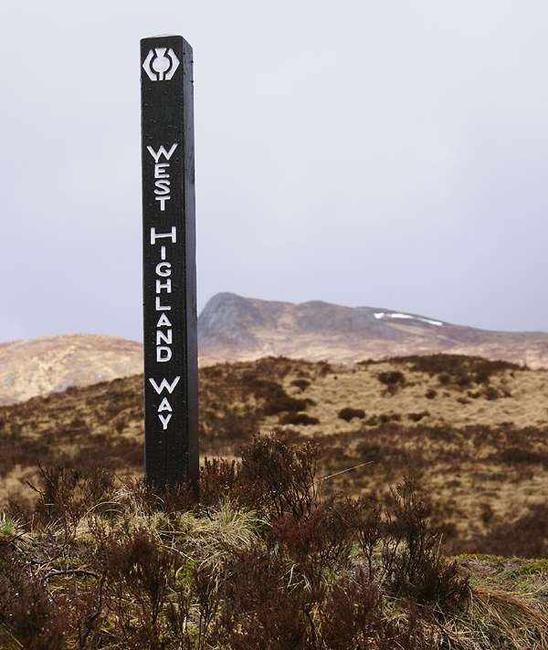 Route marker for West Highland Way just before the ascent up to Devils Staircase near Kingshouse and Clen Coe on the way to Kinlochleven